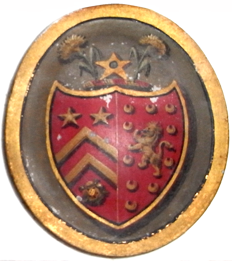 Detail from mural monument to Rev. John Swete (1752-1821) of Oxton House, Kenton, Devon, in Kenton Church. Arms of Swete (Gules, two chevronels between in chief as many mullets or and in base a rose argent seeded of the second) impaling Beaumont of Darton, Yorkshire (whose descendant was Beaumont, Viscount Allendale): Gules, a lion rampant or armed and langued azure an orle of crescents of the second (Montague-Smith, P.W. (ed.), Debrett's Peerage, Baronetage, Knightage and Companionage, Kelly's Directories Ltd, Kingston-upon-Thames, 1968, p.56, Viscount Allendale). Crest of Swete: A mullet as in the arms pierced azure between two gillyflowers proper. Representing the marriage of Rev. John Swete (1752-1821) of Oxton House, Kenton and Charlotte Beaumont (1765-1831), 2nd daughter of Rev. George Beaumont (1726-1773), Rector of Gedling, Nottinghamshire, 2nd son of George Beaumont (1696-1735) of The Oaks, Darton, Yorkshire. (Report by R. P. Graham-Vivian, Windsor Herald, College of Arms, London, 1963: "A coat of arms was granted to Guy Swete of Trayne (in parish of Modbury, Devon) by Edward IV in 1473. Description: Gules, two chevrons between as many mullets in chief and a rose in base Argent seeded Or. Crest: a mullet Or pierced Azure between two gilly flowers proper. Apparently no motto was recorded with this coat of arms." (see:[1])